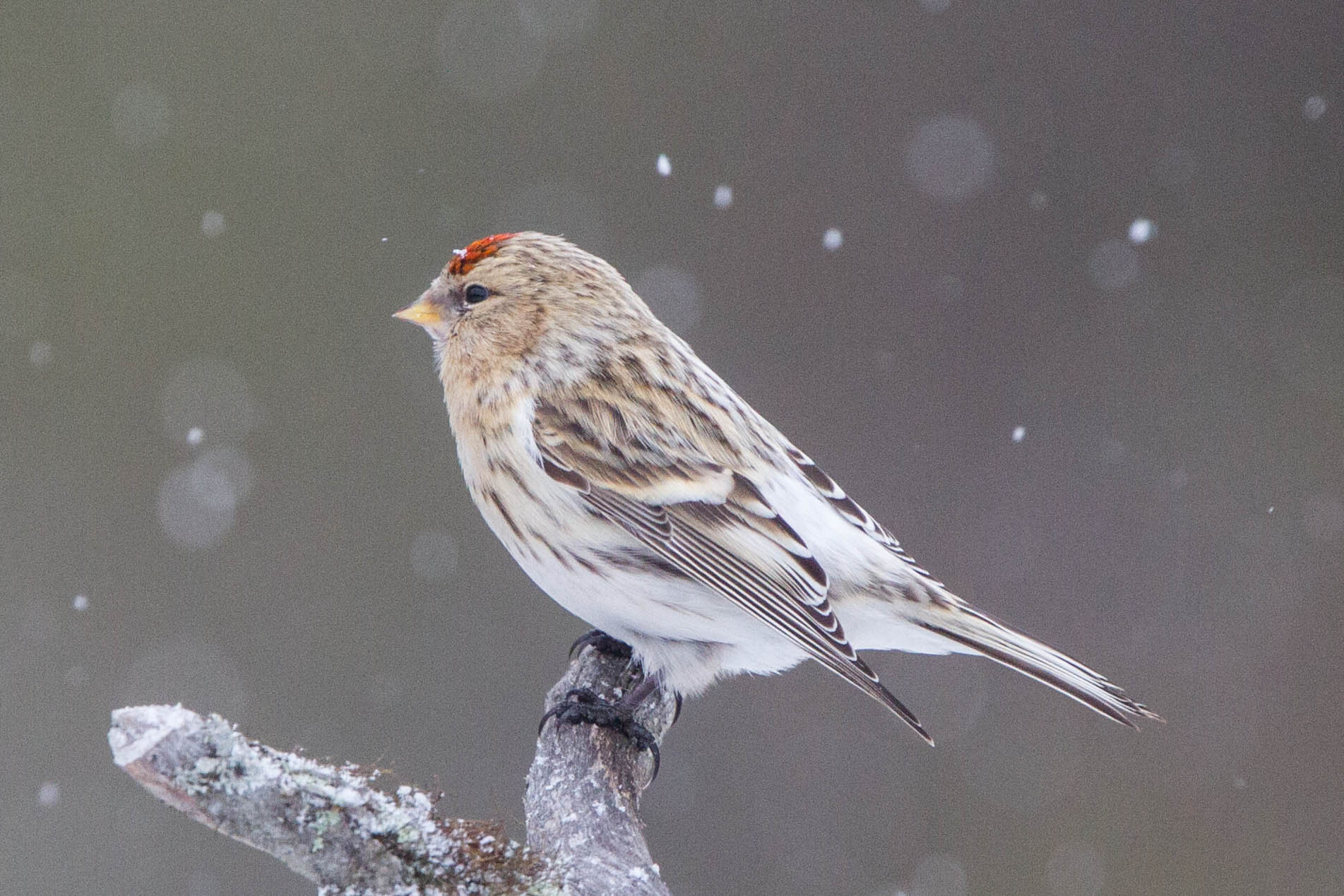 Arctic Redpoll Acanthis hornemanni, arctic Scandinavia